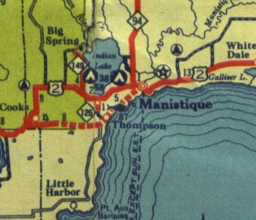 A section of the 1936 Official Michigan Highway Map, showing US Highway 2 near Manistique in Michigan.